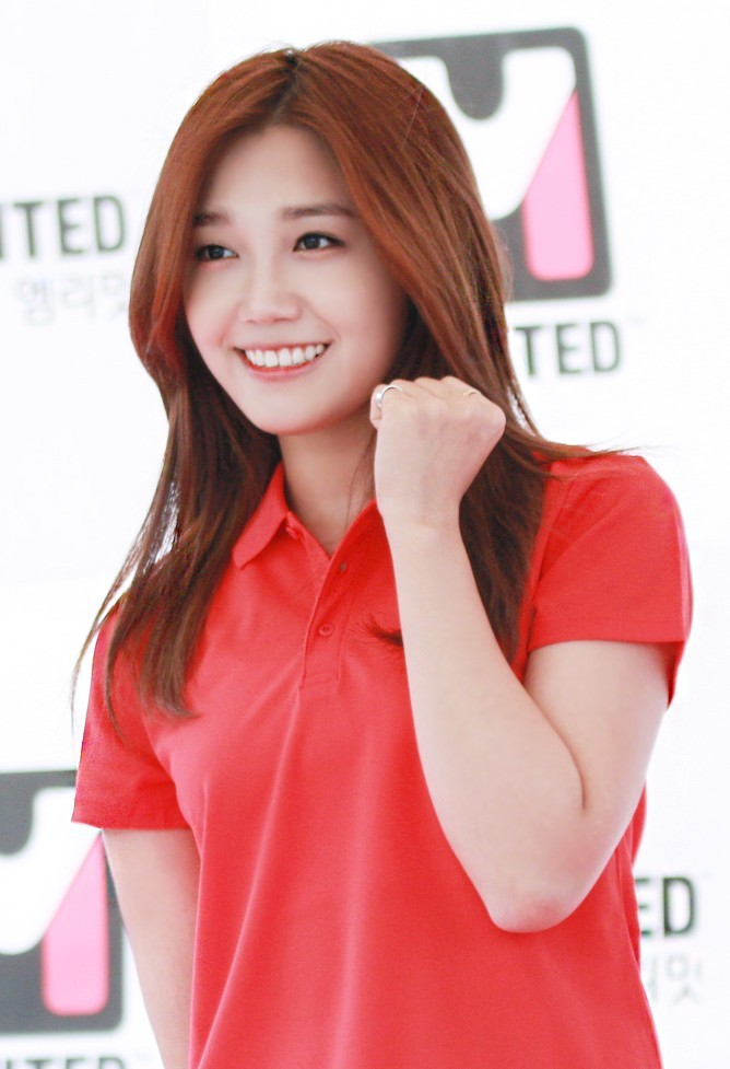 Jung Eunji at a fansigning for M Limited, 9 May 2015